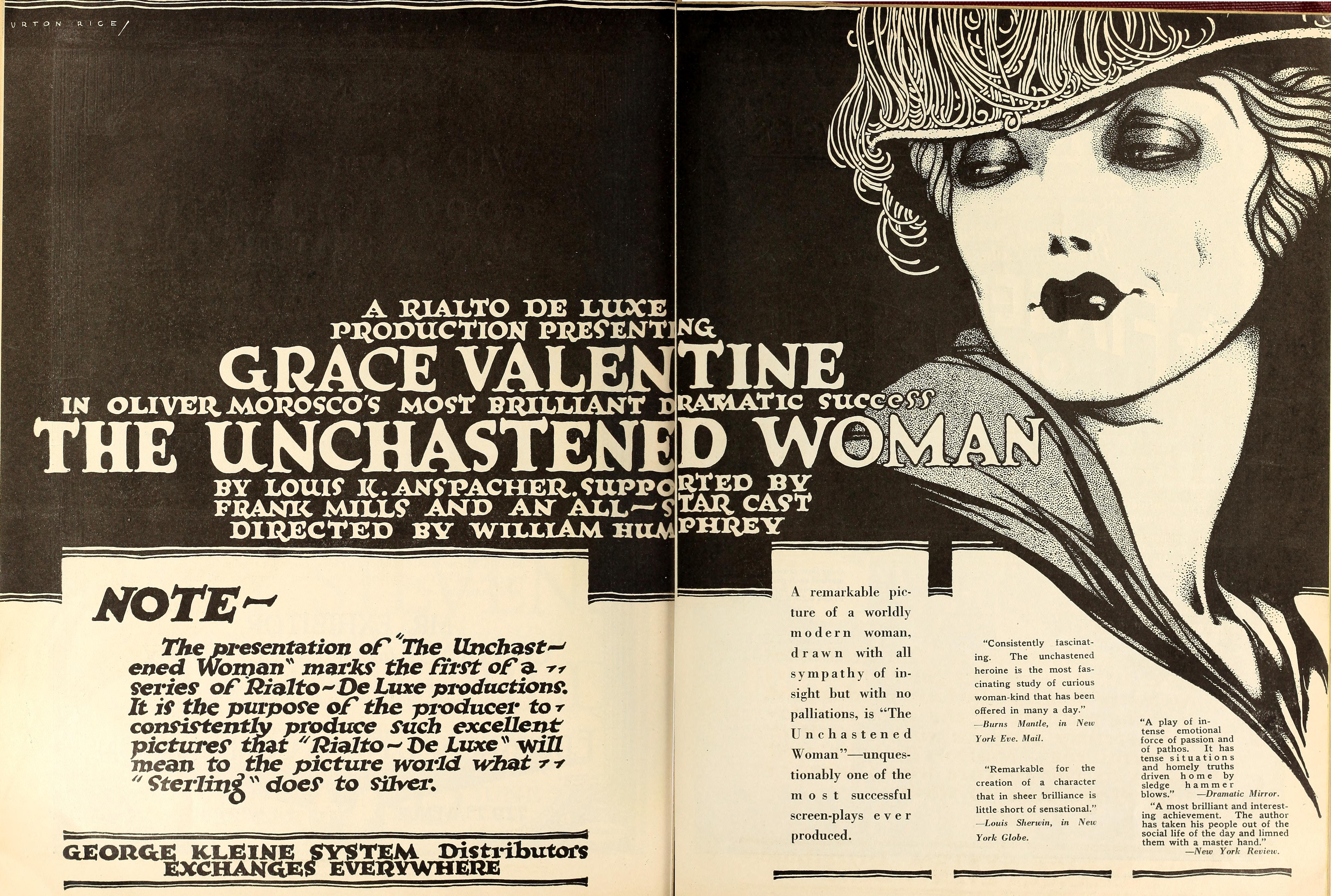 Advertisement in Motion Picture News, June 1918, for the American film The Unchastened Woman (1918).